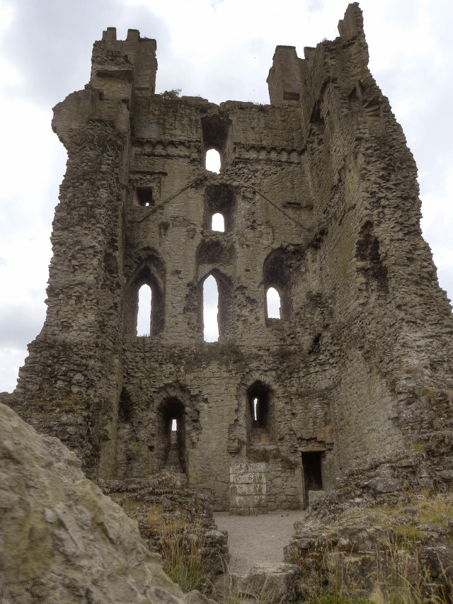 Partial remains of Helmsley Castle.